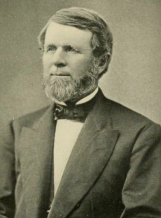 Oren Burbank Cheney, Maine politician and founder of Bates College